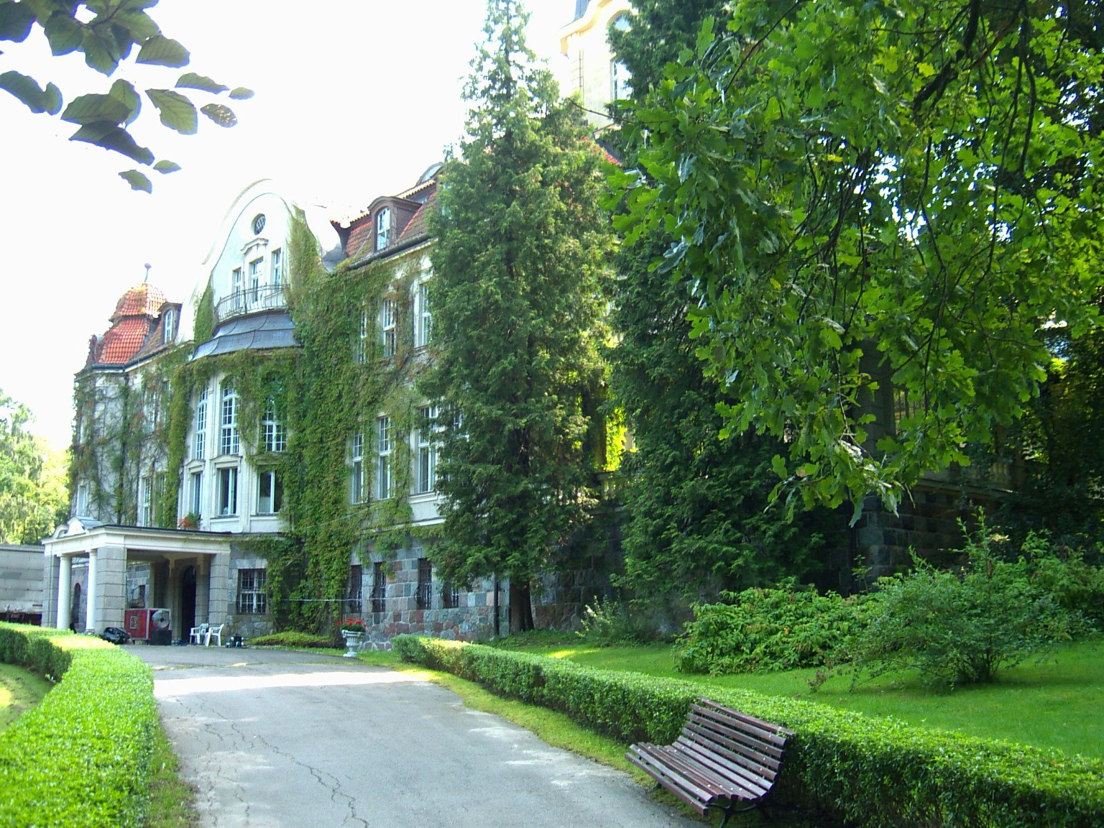 Palace in Łężany, northern facade, shot from entrance lane